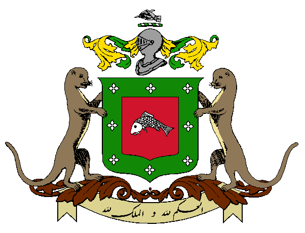 Baoni State coat of arms; motto: Alhukmu lillah wal mulku lillah This work is in the public domain in India because its term of copyright has expired. The Indian Copyright Act applies in India, to works first published in India. According to The Indian Copyright Act, 1957 (Chapter V Section 25), Anonymous works, photographs, cinematographic works, sound recordings, government works, and works of corporate authorship or of international organizations enter the public domain 60 years after the date on which they were first published, counted from the beginning of the following calendar year (ie. as of 2020, works published prior to 1 January 1960 are considered public domain). Posthumous works (other than those above) enter the public domain after 60 years from publication date. Any other kind of work enters the public domain 60 years after the author's death. Text of laws, judicial opinions, and other government reports are free from copyright. Photographs created before 1960 are in the public domain 50 years after creation, as per the Copyright Act 1911. This file may not be in the public domain outside India. The creator and year of publication are essential information and must be provided. See Wikipedia:Public domain and Wikipedia:Copyrights for more details. This image shows a flag, a coat of arms, a seal or some other official insignia. The use of such symbols is restricted in many countries. These restrictions are independent of the copyright status.